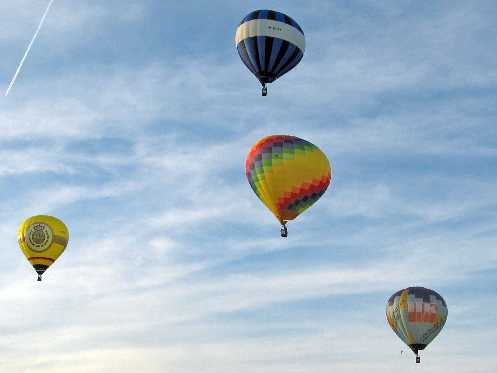 Balloons at the Warsteiner Internationale Montgolfiade.